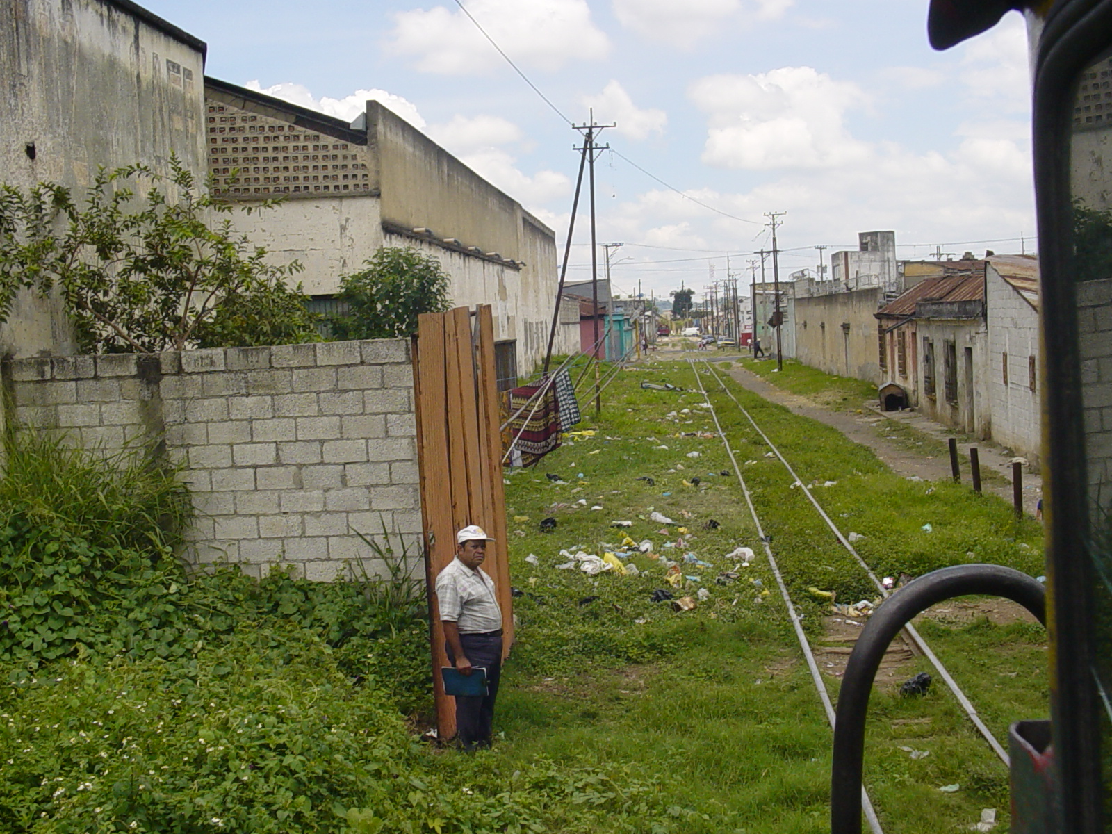 Gates on departure from the main station in Guatemala City towards Puerto Barrios. Security guard opens them to entering and leaving trains.